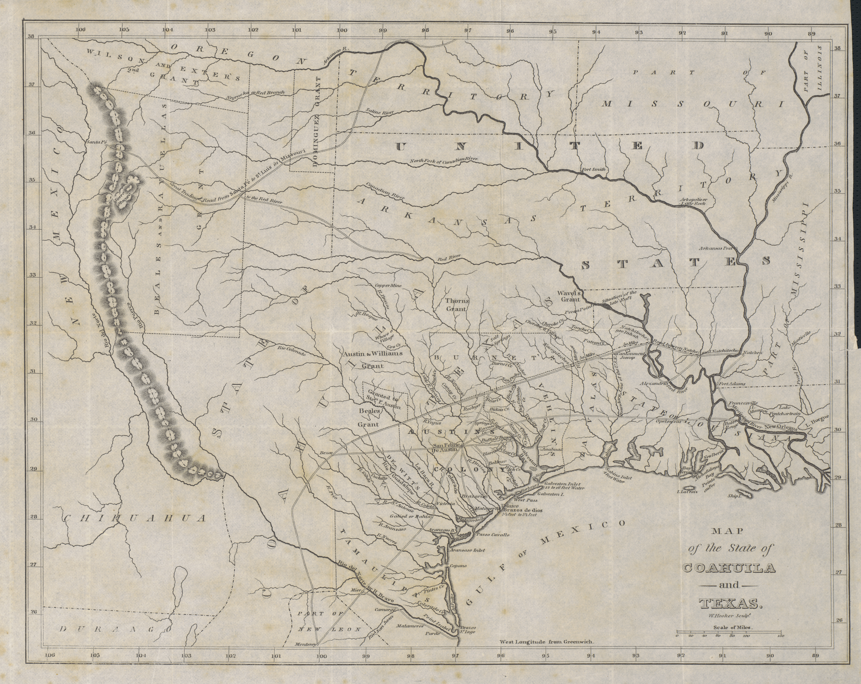 Philadelphia engraver, printer, map publisher, and instrument maker William Hooker's Map of Coahuila and Texas first appeared in an 1833 promotional book on Texas by Mary Austin Holley (1784-1846), a first cousin of the famous Texas colonizer Stephen F. Austin. Holley and her publisher, Armstrong & Plaskitt of Baltimore substituted Hooker's map when Henry S. Tanner, the publisher of Stephen F. Austin's large map of Texas, refused to allow the latter to be used in the book. Hooker's map shows the Austin Colony capital town of San Felipe de Austin at the center of roads leading to a number of settlements including Bexar (San Antonio de Bexar), Victoria and Goliad or Bahia, Matagorda, Brazaria (sic, Brazoria), Harrisburg and Buffalo Bayou as well as a road connecting to the older Camino Real or old Spanish road between Bexar and Nacogdoches. Lands granted to individuals under the Mexican empresario system are shown. In addition to Stephen F. Austin's grants awarded in 1821 (confirmed in 1823 and extended by further contracts in 1825, 1827, and 1828), these include the grants of Green DeWitt (contract awarded in 1825), Frost Thorn (1825), Benjamin R. Milam (1826), David G. Burnet (1826), Arthur G. Wavell (1826), Joseph Vehlein (1826 and 1828), Lorenzo de Zavala (1829), Juan Dominguez y Valdez (1829), Richard Exter (1826, 1828), John Charles Beale (1830). The lands in west Texas granted to Beale and José Manuel Royuela and to Austin and his partner Samuel May Williams in 1832 are the latest to appear on the map. References to other land grants are missing but some would appear on later editions in 1834 and 1836.